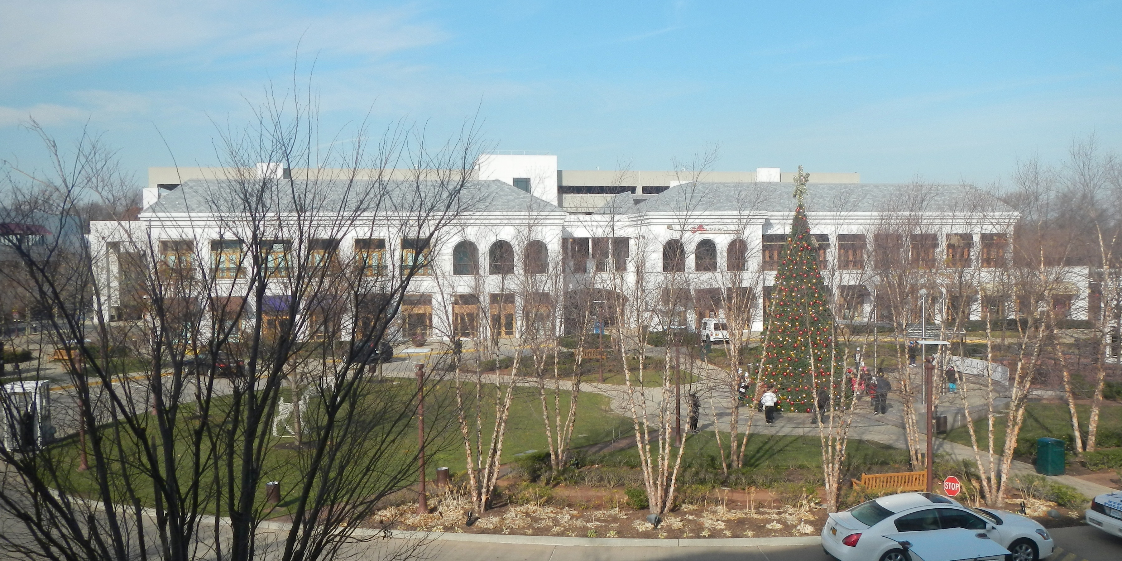 Looking north at Atlas mall on a sunny late afternoon.